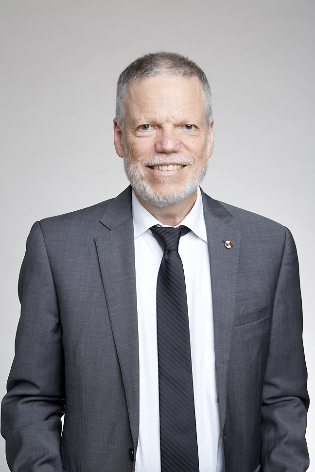 Gordon Douglas Slade (born December 14, 1955 in Toronto) is a Canadian mathematician, specializing in probability theory Attribution: The Royal Society